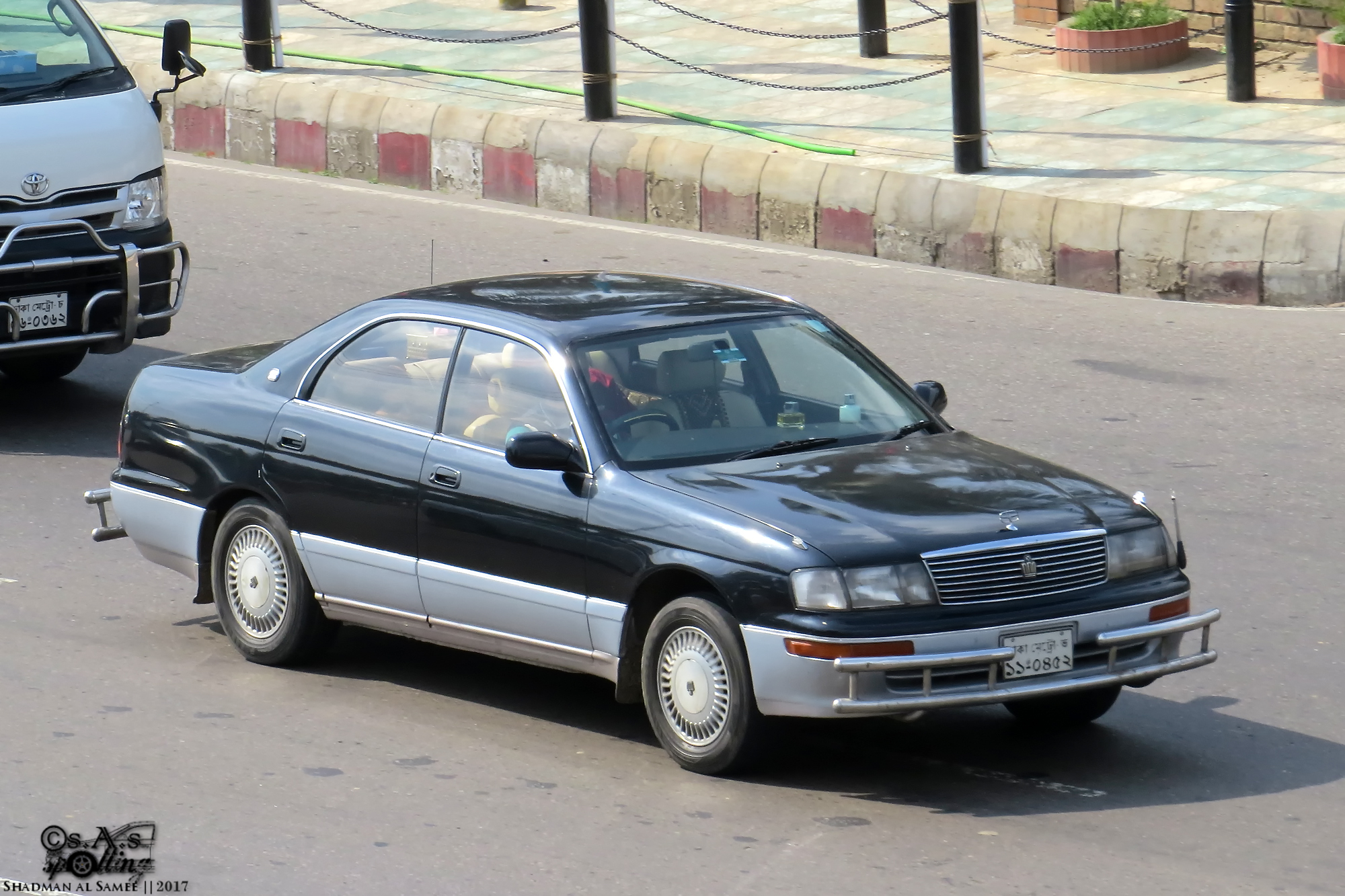 Airport Rd 2017: The steelies (Steel-bumper guards) though